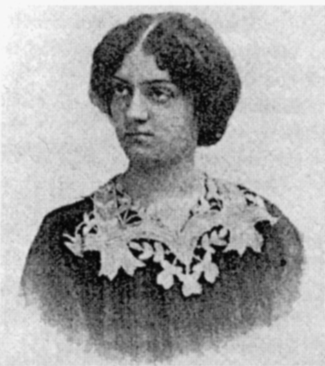 Portrait photo of Maria Eichhorn (Dolorosa)